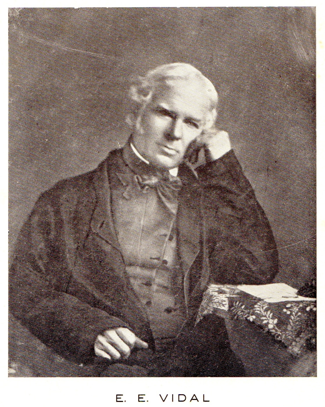 The watercolourist Emeric Essex Vidal, by an unknown daguerrotypist (taken before 1861)